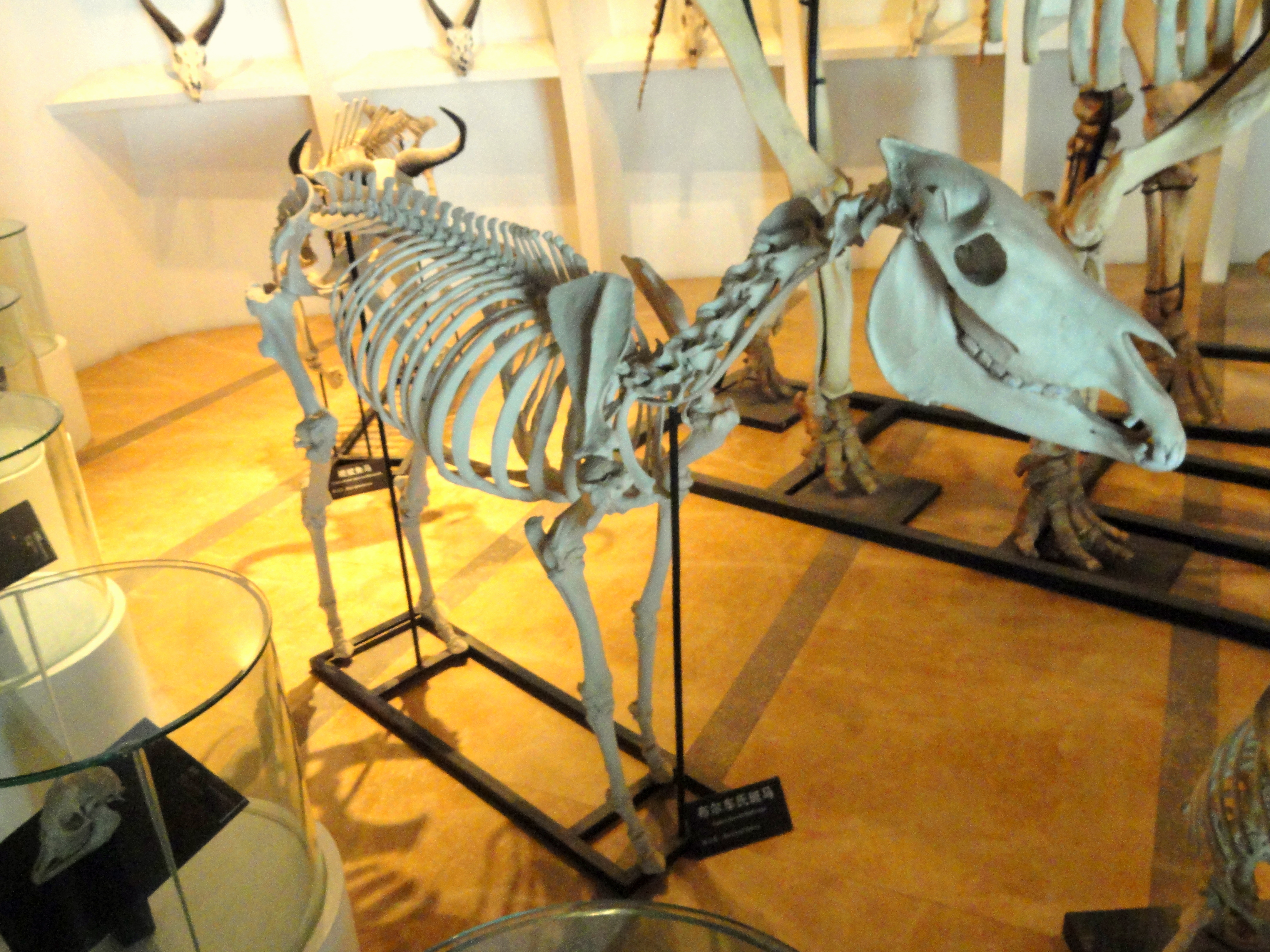 Skeleton exhibit in the Kunming Natural History Museum of Zoology (昆明动物博物馆), Kunming, Yunnan, China.